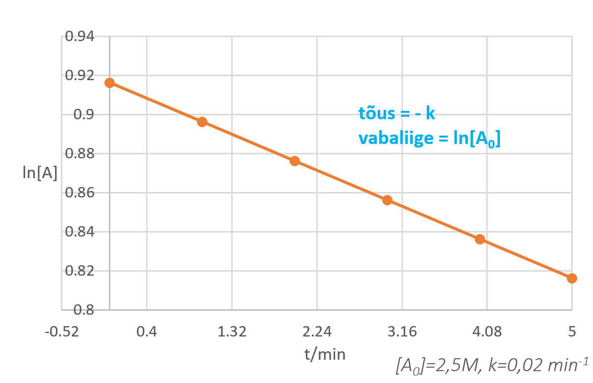 Linear function of first order reaction.